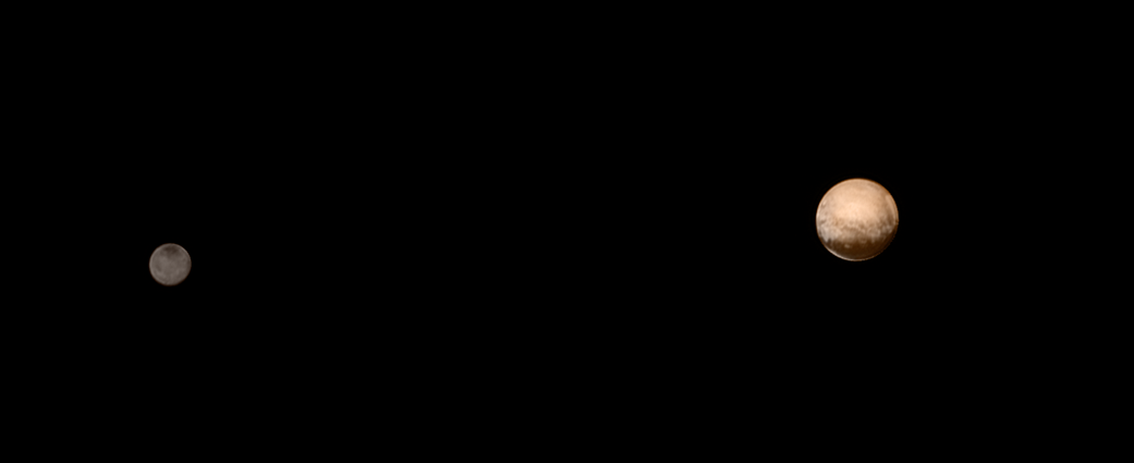 Photo took 9 July 2015, combination of LORRI and RALPH images of Charon (left) and Pluto (right)